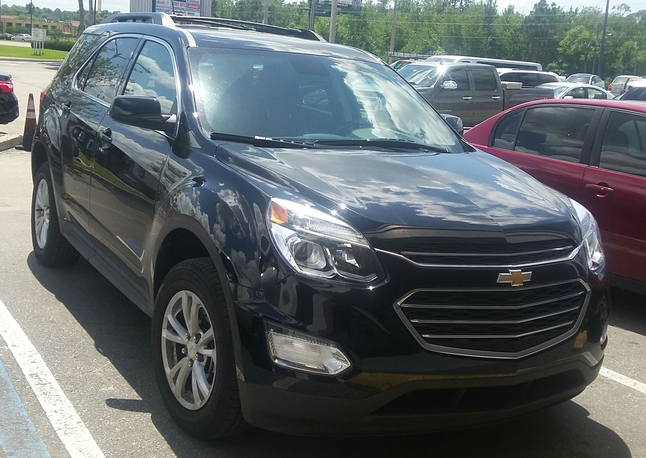 2016 Chevrolet Equinox photographed in Kissimmee, Florida, USA.